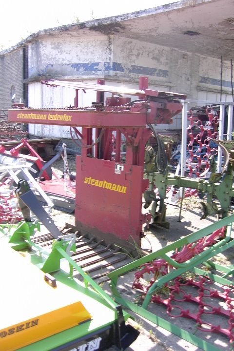 Silo block cutters, brand is Strautmann